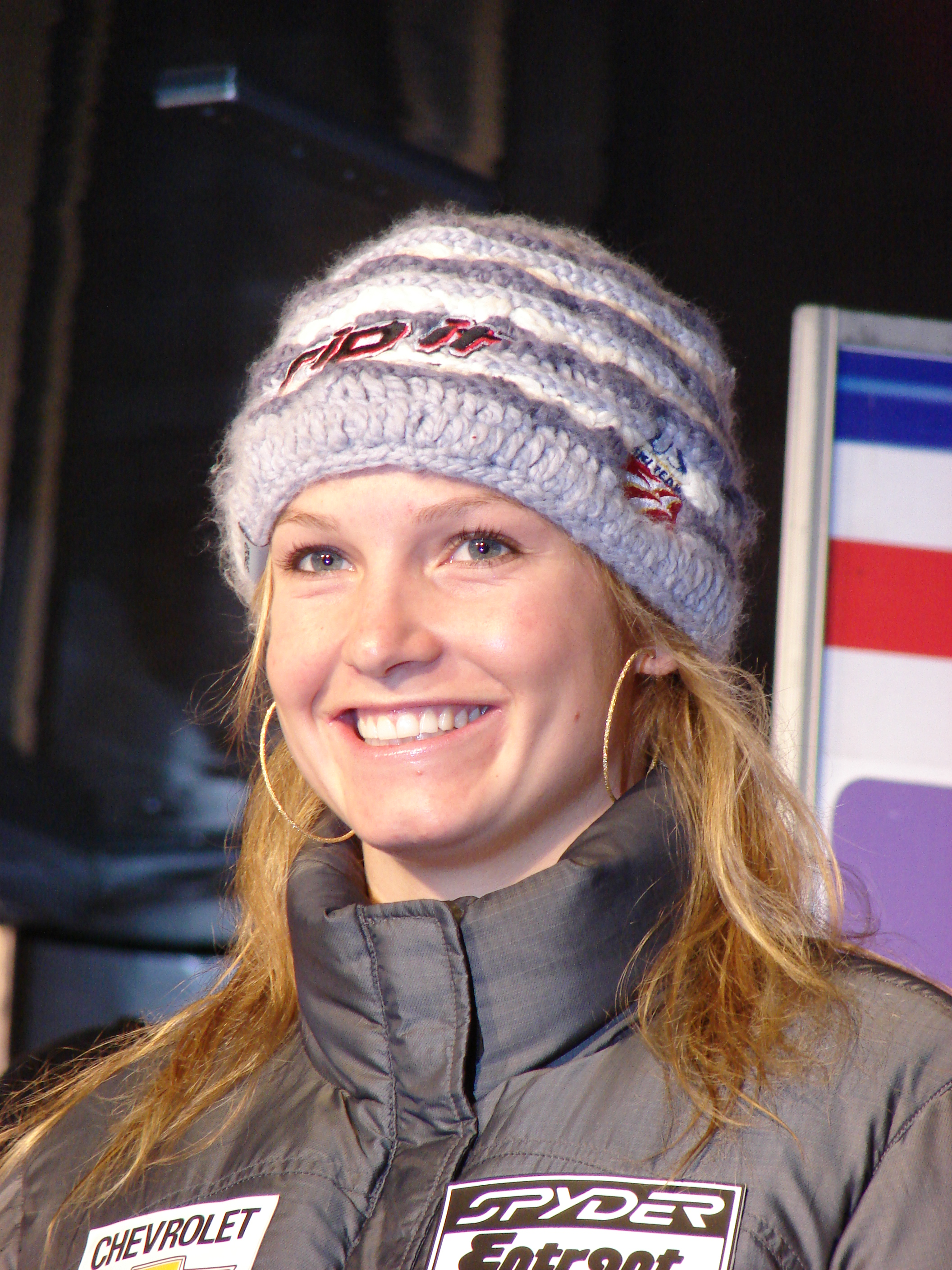 Julia Mancuso during the award ceremony for the winners of the giant slalom in Semmering, Austria on Dec. 28, 2006.